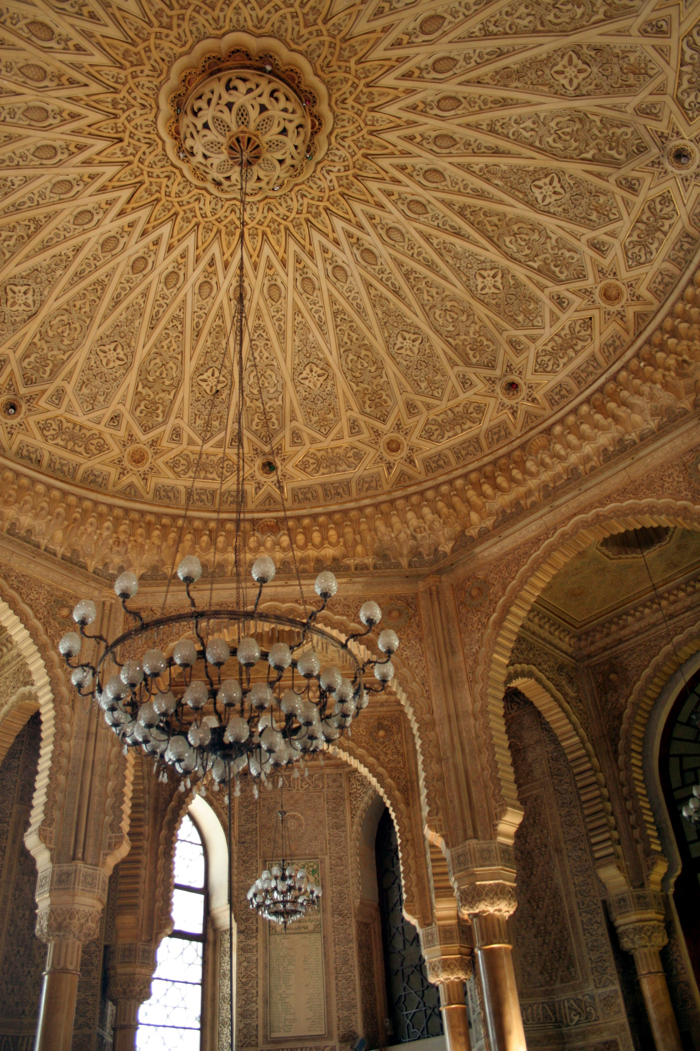 Algiers, inside the Great Post Office ("Grande Poste")